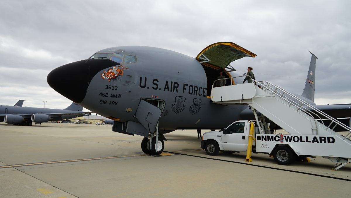 A KC-135 of the 336th Air Refueling Squadron, 452nd Air Mobility Wing at March AFB.